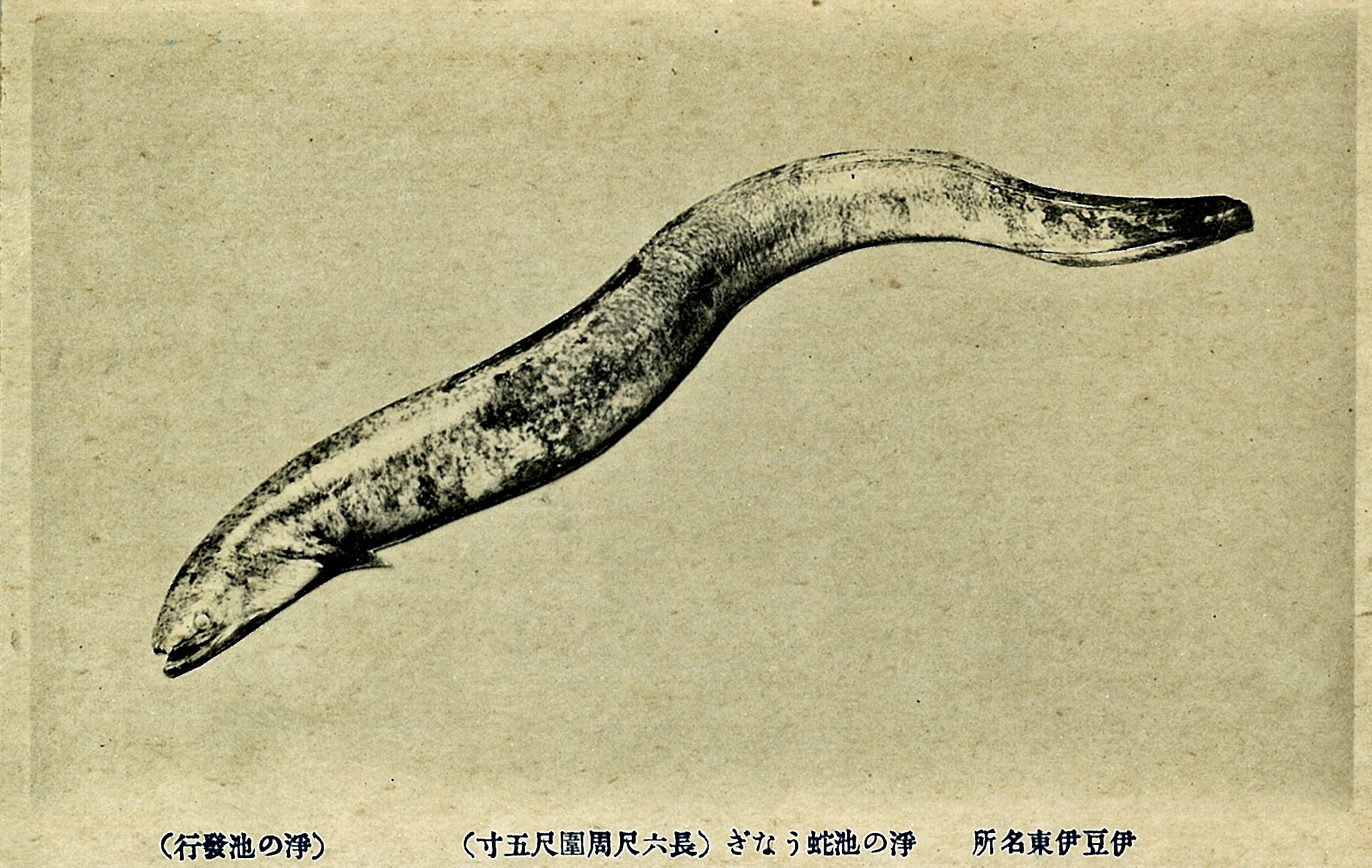 Jono-ike pond postcard. Giant mottled eel. circa 1925